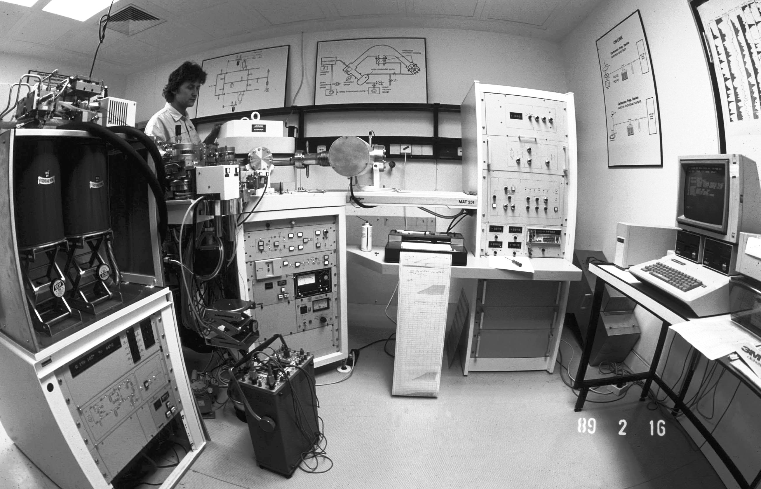 Mass-spectrometer (Finnigan MAT251) for measuring stable carbon (12C/13C) and oxygen (16O/18O) isotopes in carbonaceous shells. Isotope laboratory of Alfred Wegener Institute for Polar and Marine Research, Bremerhaven, Germany. The engineer is checking the magnet for deflection and separation of the isotopes. The MAT251 was controlled by an Apple II computer (right).